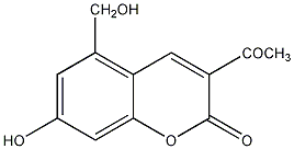 Armillarisin A structer 中文（台灣）: 亮菌甲素分子結構 中文（中国大陆）: 亮菌甲素分子结构